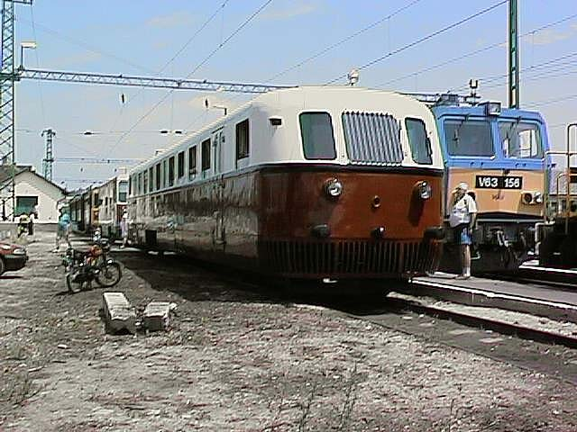 Arpad railbus on display at Veresegyház station. A single day exhibition organized to commemorate the town day of Veresegyház in July 2, 2000.